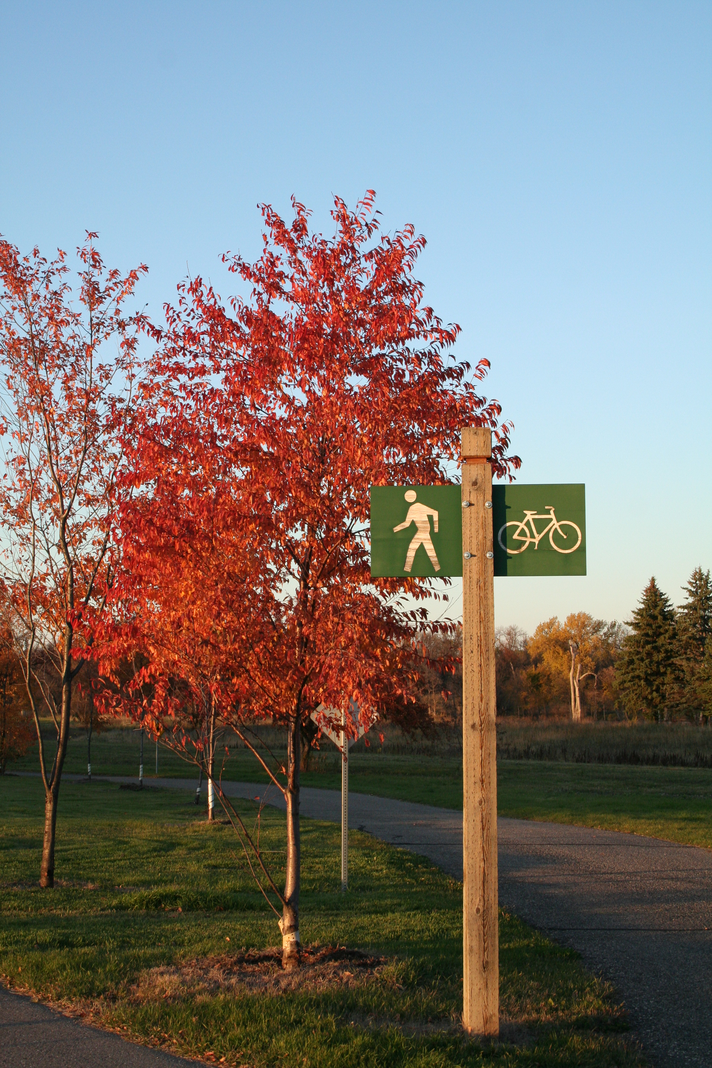 The Grand Forks, North Dakota Greenway near the Olson Drive access.